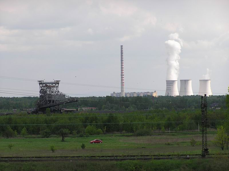 Power Station Jaworzno III in Jaworzno